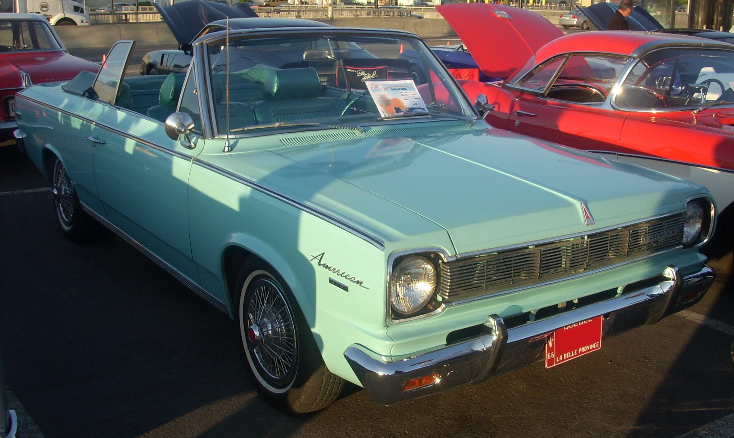 1966 Rambler American photographed in Montreal, Quebec, Canada at Gibeau Orange Julep.